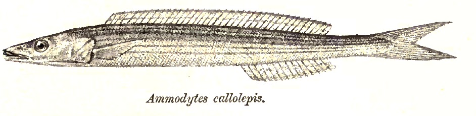 Ammodytes callolepis = Bleekeria kallolepis Günther, 1862